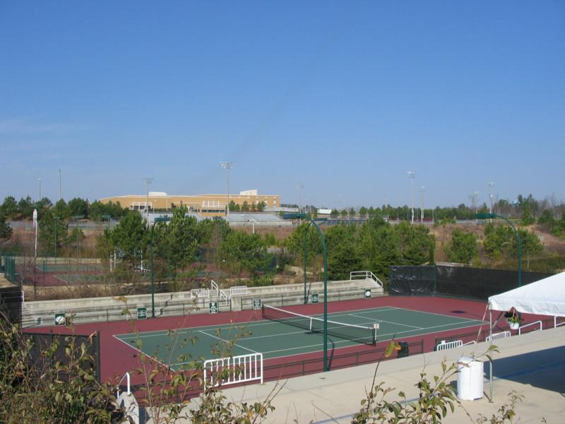 Cary Tennis Park